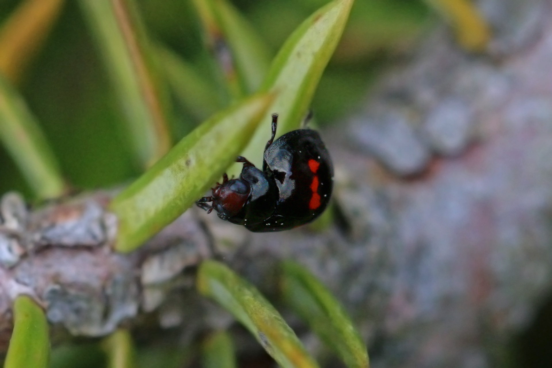 Heather ladybird (Chilocorus bipustulatus), Aston Upthorpe, Oxfordshire